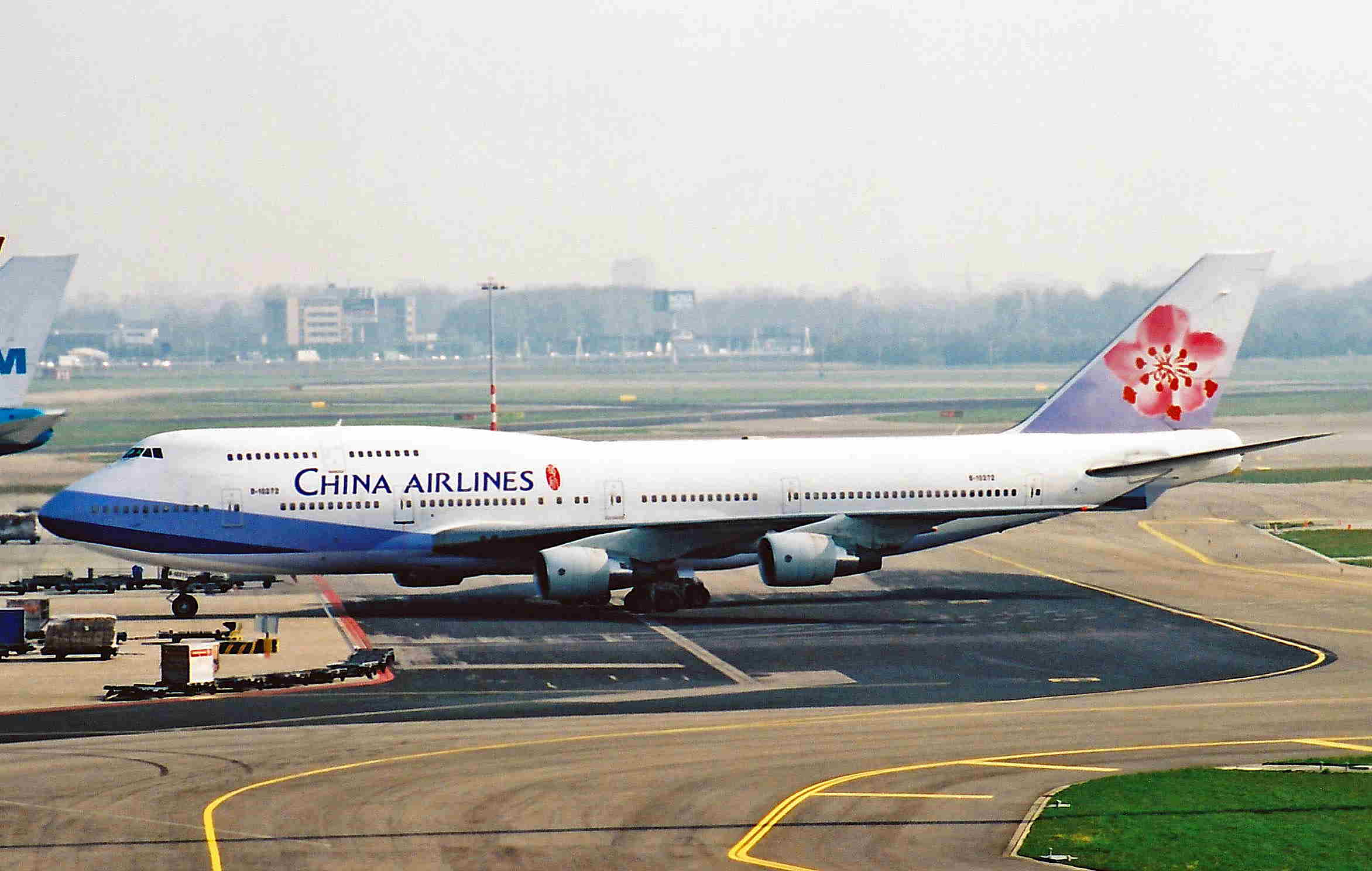 Former B-162. Currently a Dreamlifter.